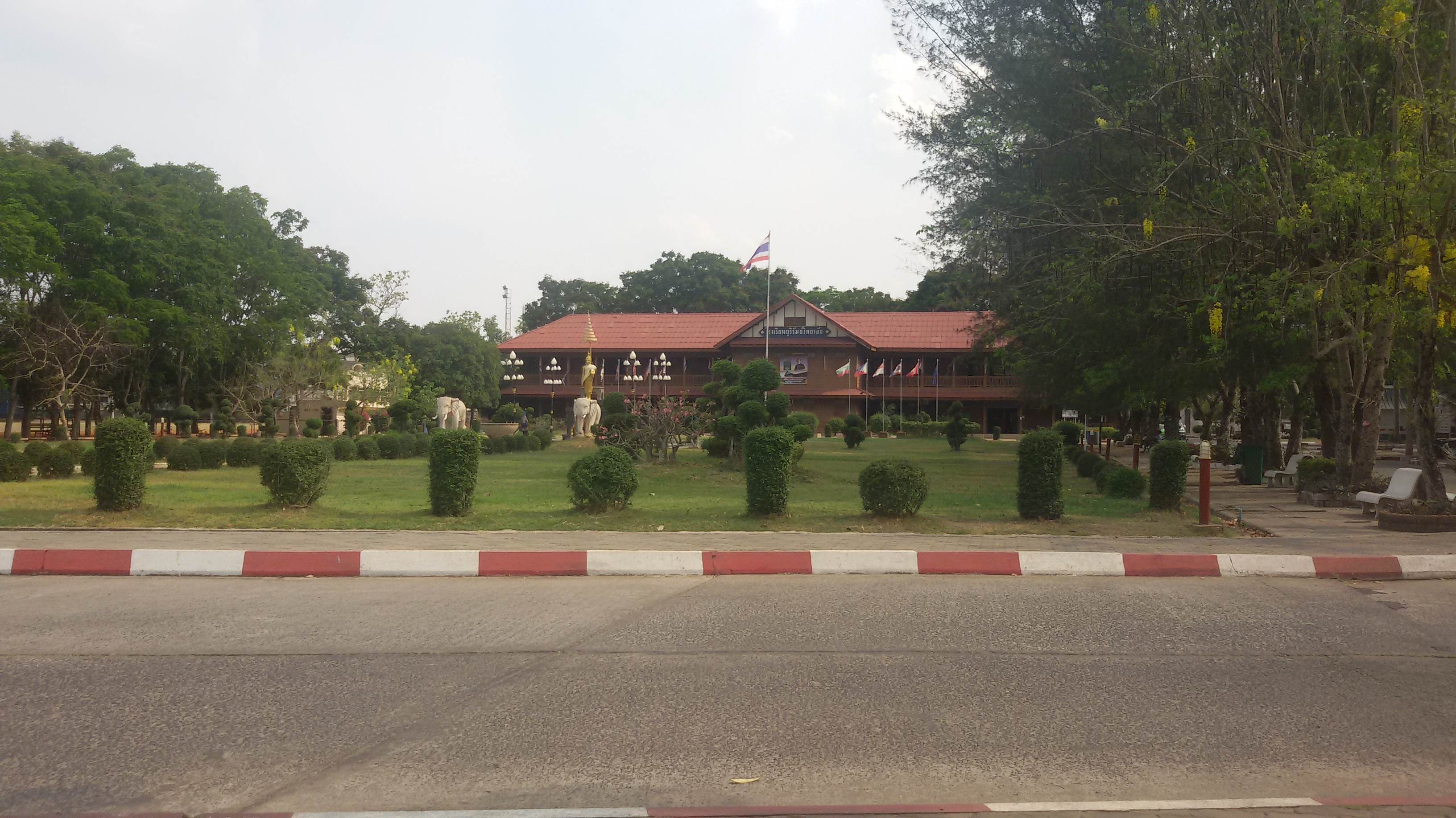 Building 9 and the yard at Buriram Pittayakhom School April 2016